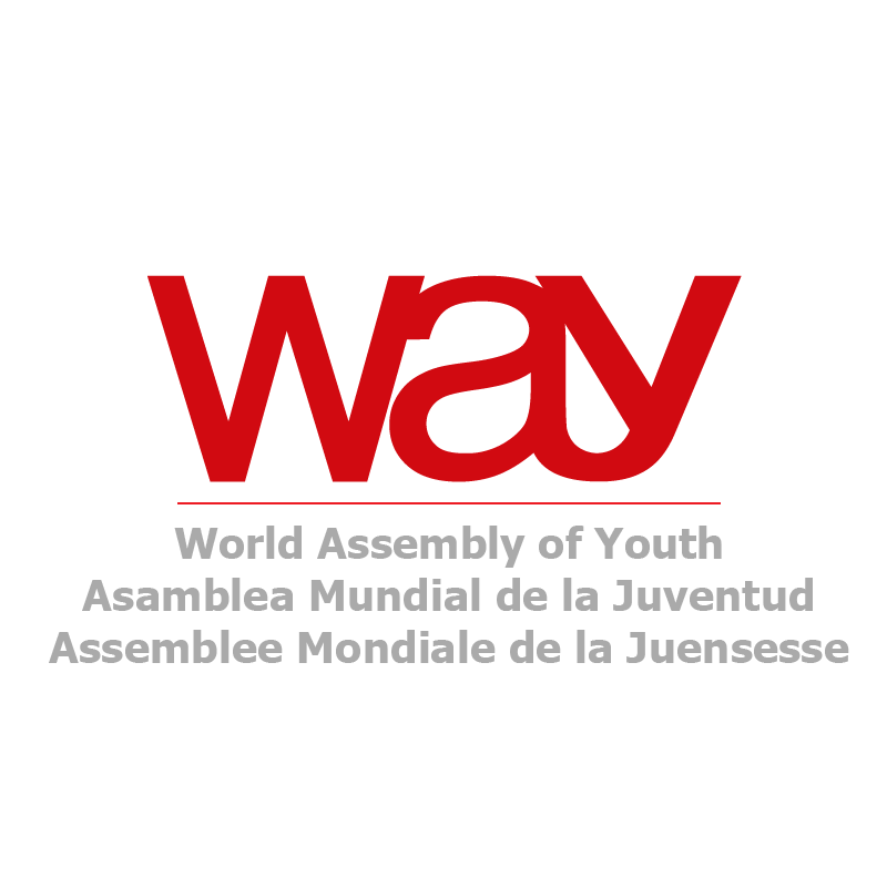 Logo of the World Assembly of Youth